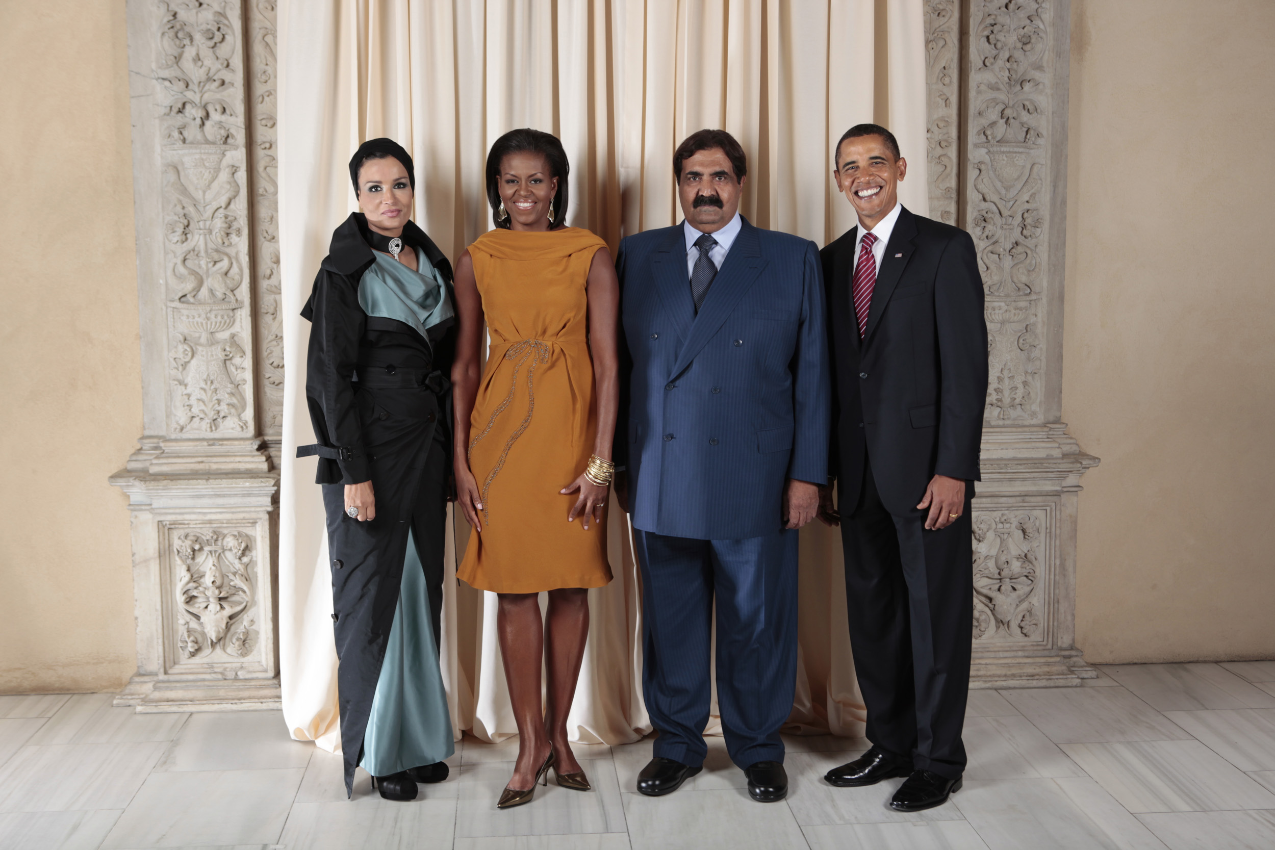 President Barack Obama and First Lady Michelle Obama pose for a photo during a reception at the Metropolitan Museum in New York with Hamad Bin Khalifa Al-Thani and his second wife, Sheikha Mozah bint Nasser Al Missned.